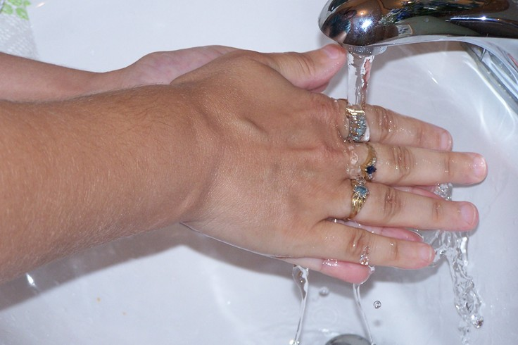 Portable toilets, handwash stations , and storage units for rent in Kitsap & Pierce county WA .